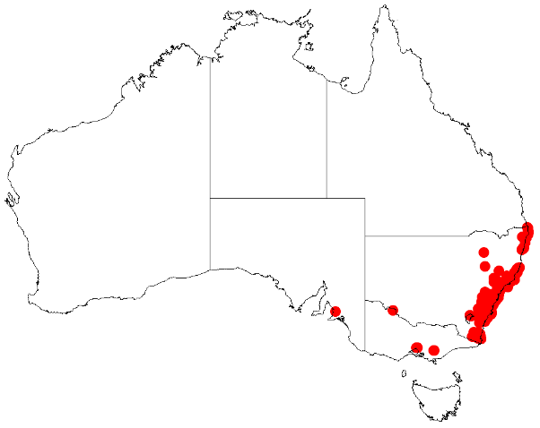 Acacia elongata Occurrence data from Australasia Virtual Herbarium downloaded from on 8 December 2018